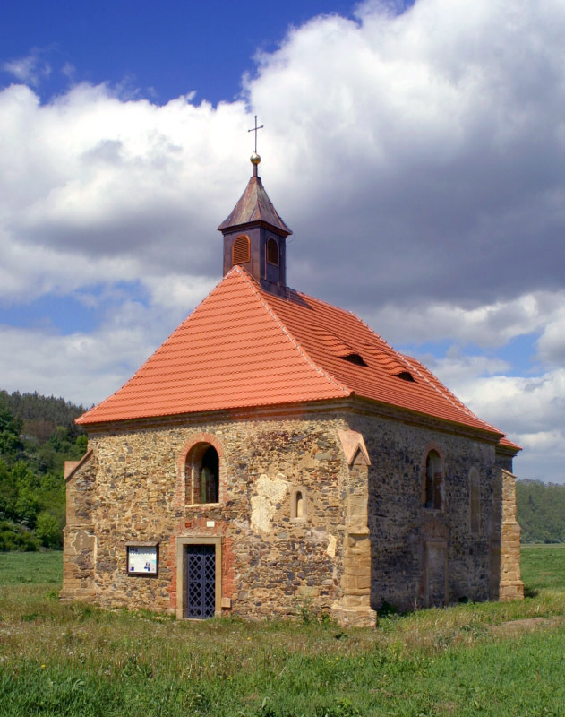 St. Peter and Paul church in Dolany, Czech Republic. South view.